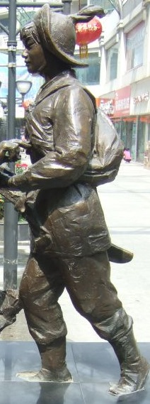 Mulan statue